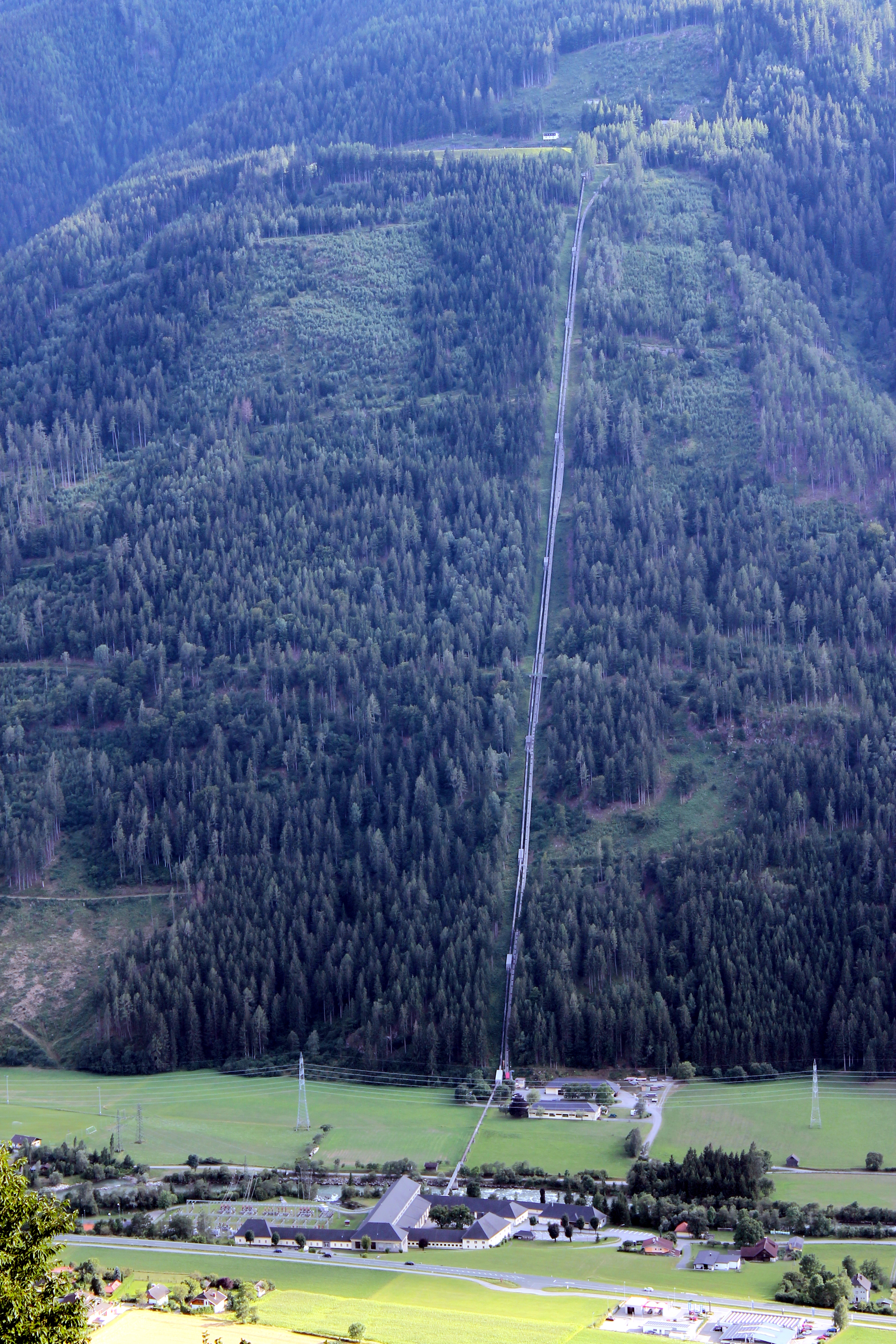 Hydroelectric power station Kolbnitz, part of the powerplants Reißeck-Kreuzeck, Austria.